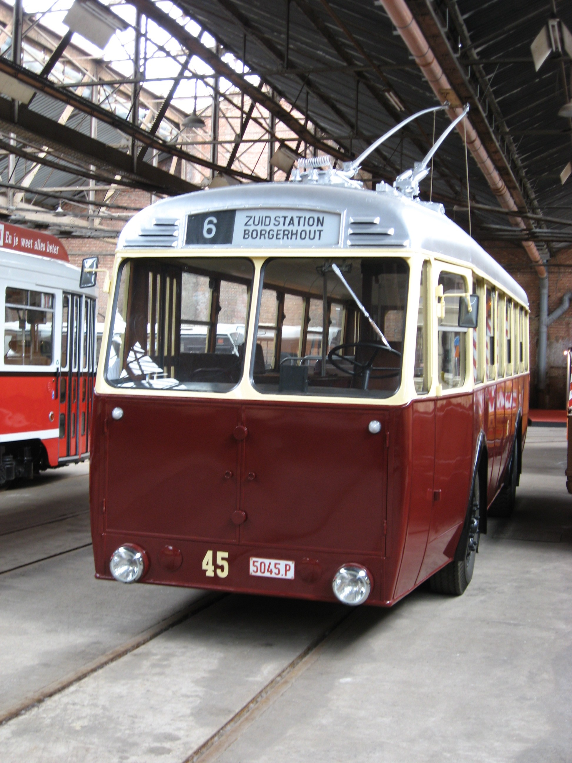 Antwerp trolleybus in the "Vlaamse Tram en bus museum".